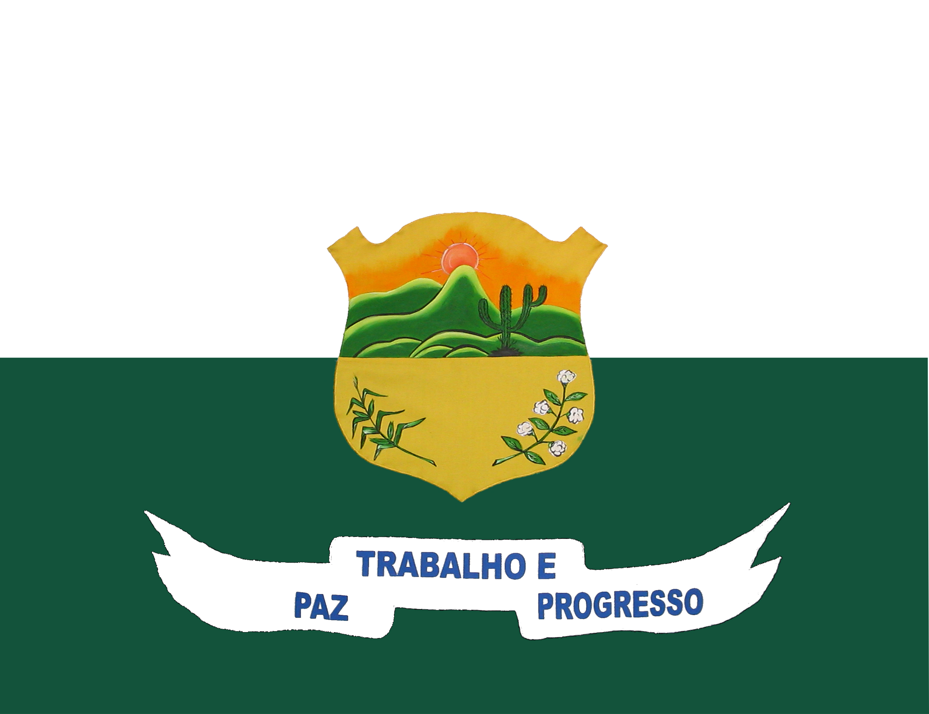 Flag of the Municipal district of Iguaracy - PE